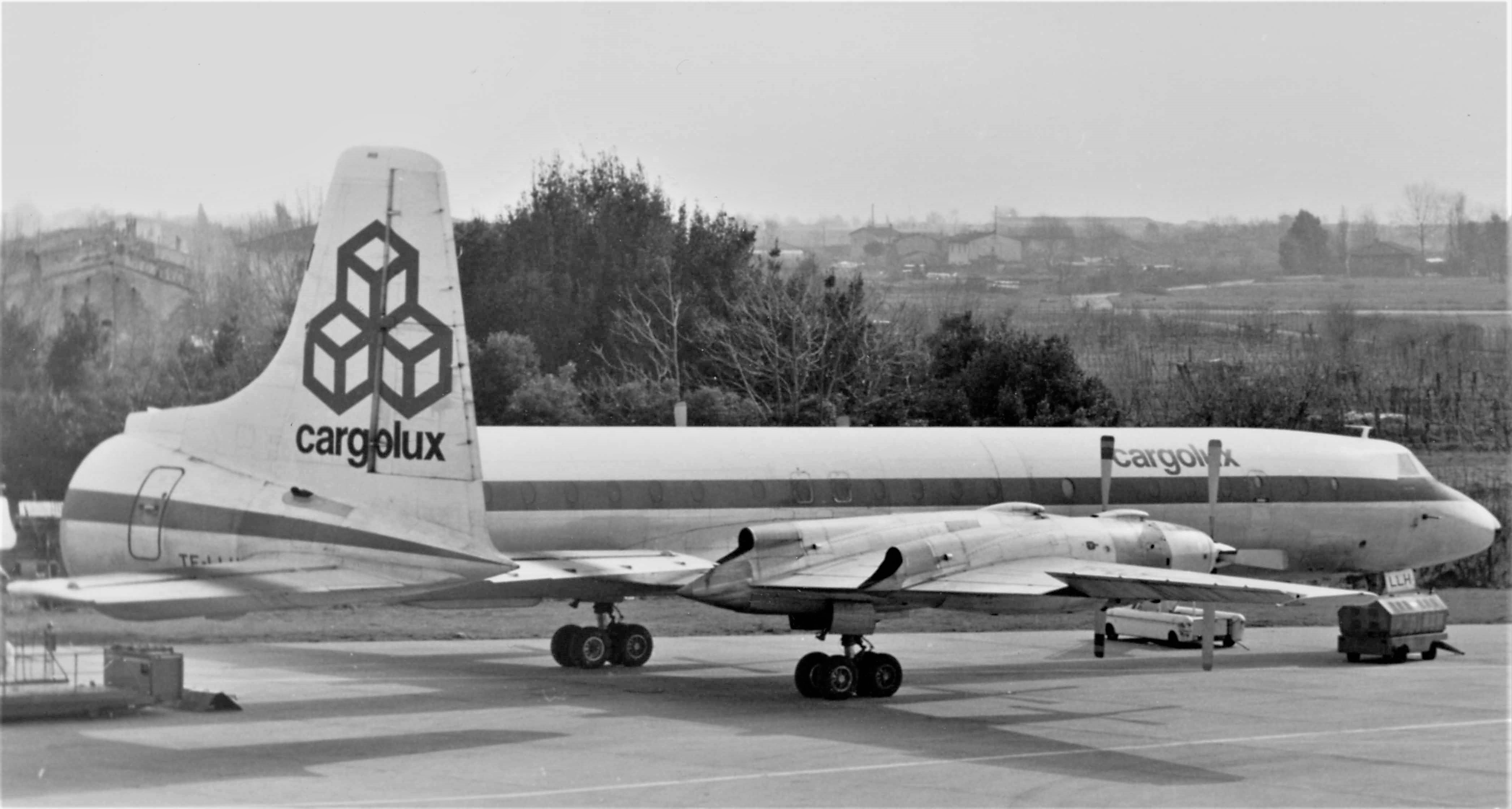 Italy, Pisa International Airport. Cargolux Canadair CL-44D4-1, TF-LLH, c/n 9. Civil demonstrator made the first flight on November 16, 1960 registered CF-MKP-X. Loftleider Icelandc Airlines TF-LLH “Gudridur Thorbajnardottir” sold to Cargolux on December 2, 1971 in version J standard with the swing tail. Sold to Aer Turas on May 5, 1979 registered EI-BGO. Scrapped on June 1, 1986.